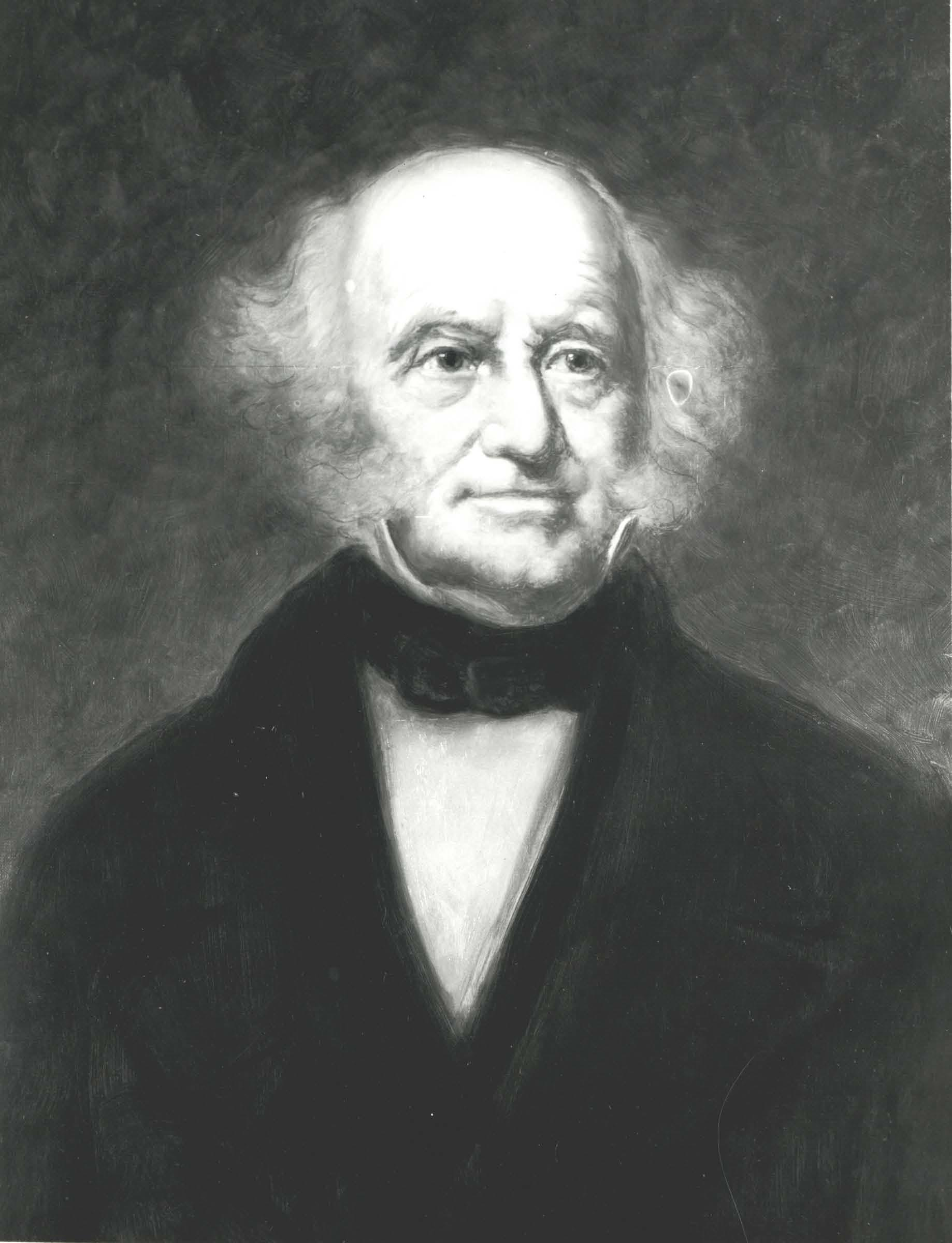 Martin Van Buren, U.S. Secretary of State, March 28, 1829 to March 23, 1831